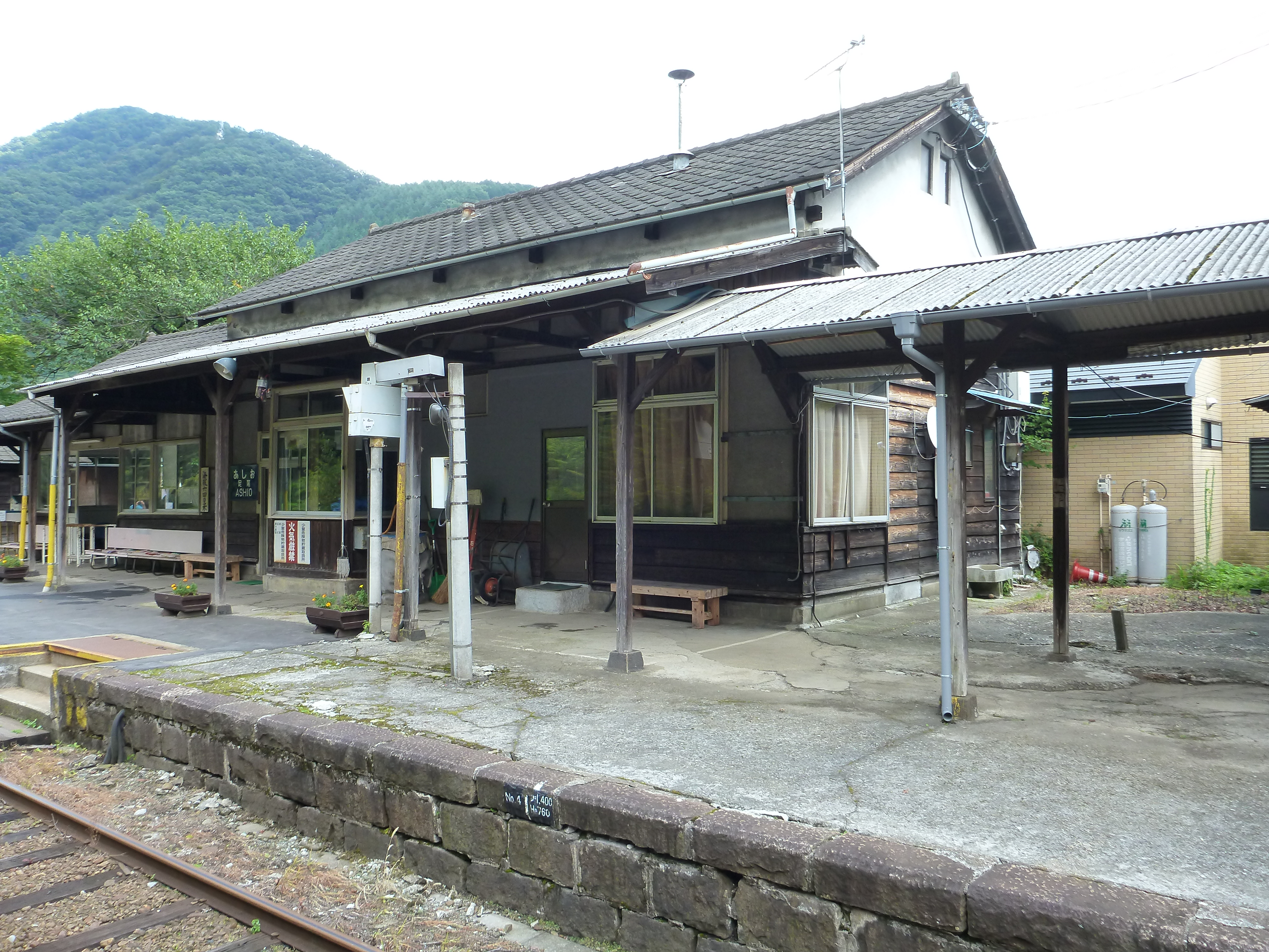 Ashio Station (足尾駅 Ashio-eki) in Nikkō, Tochigi Prefecture, Japan.